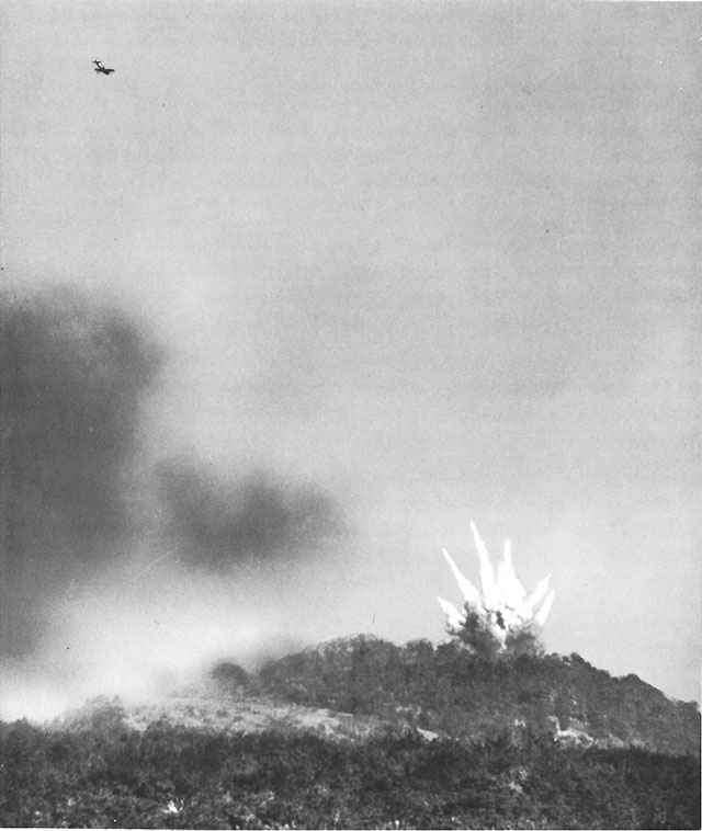 Bombing of Fort Driant by P-47's from the XIX Tactical Air Command